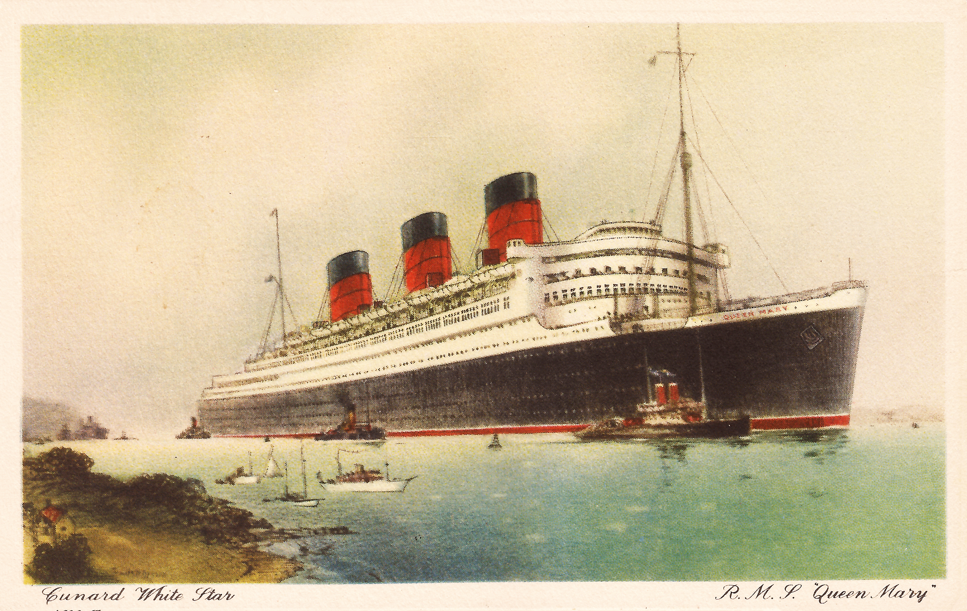 Postcard of the Cunard White Star RMS "Queen Mary"